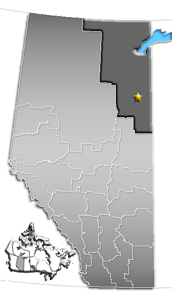 Location of Fort McMurray, Census Division No. 16, Albera